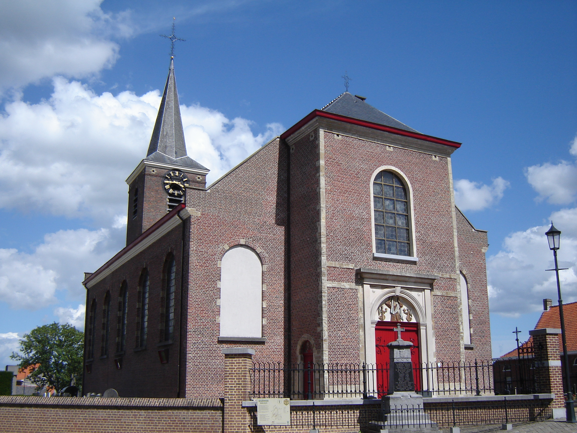 Church of the Assumption of Mary in Sint-Maria-Horebeke. Sint-Maria-Horebeke, Horebeke, East Flanders, Belgium